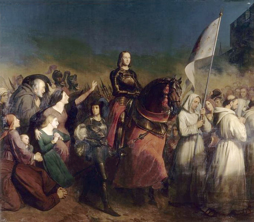 Joan of Arc